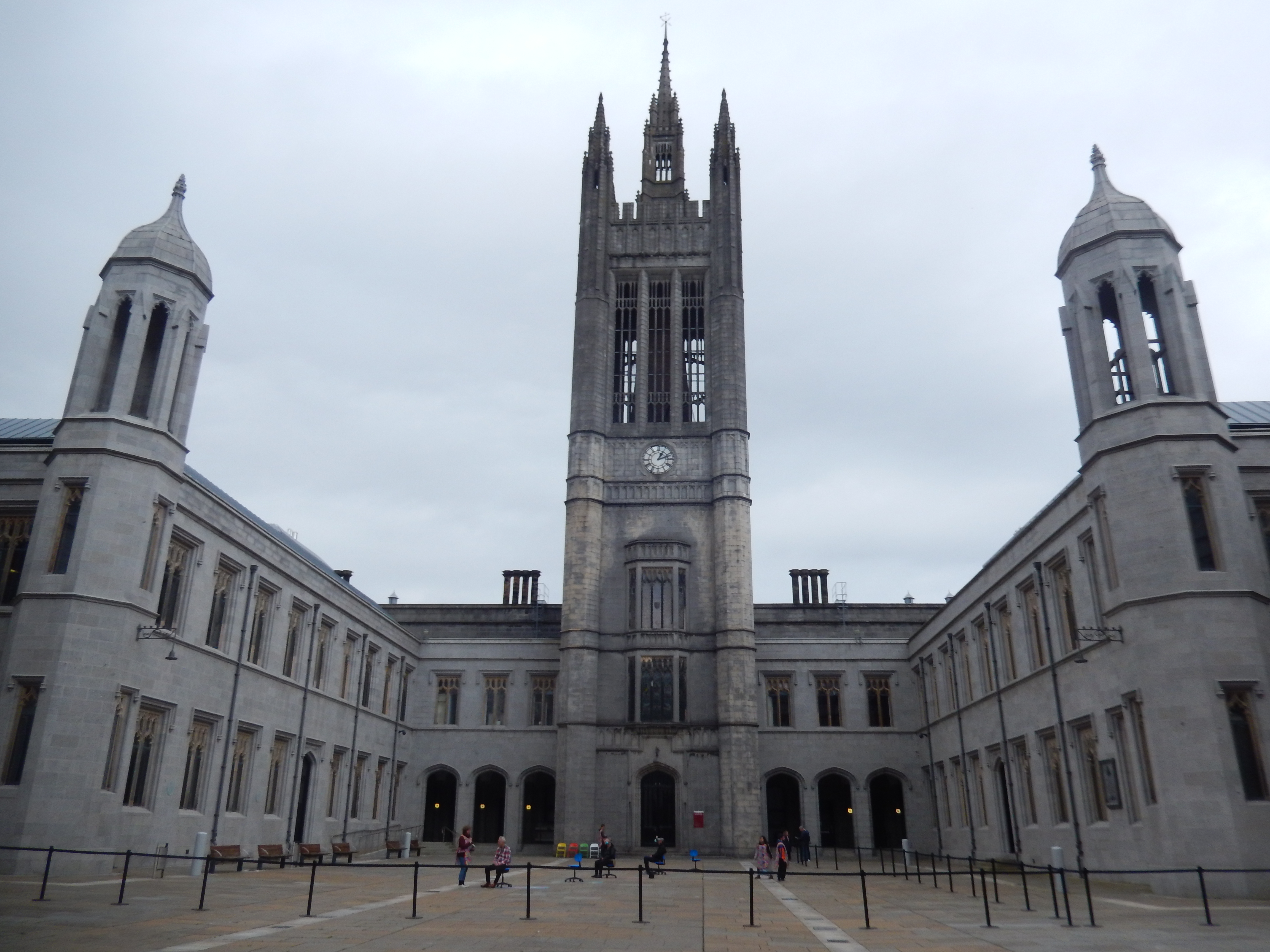 Interior Courtyard of Marischal College Wikidata has entry Q11838975 with data related to this item.